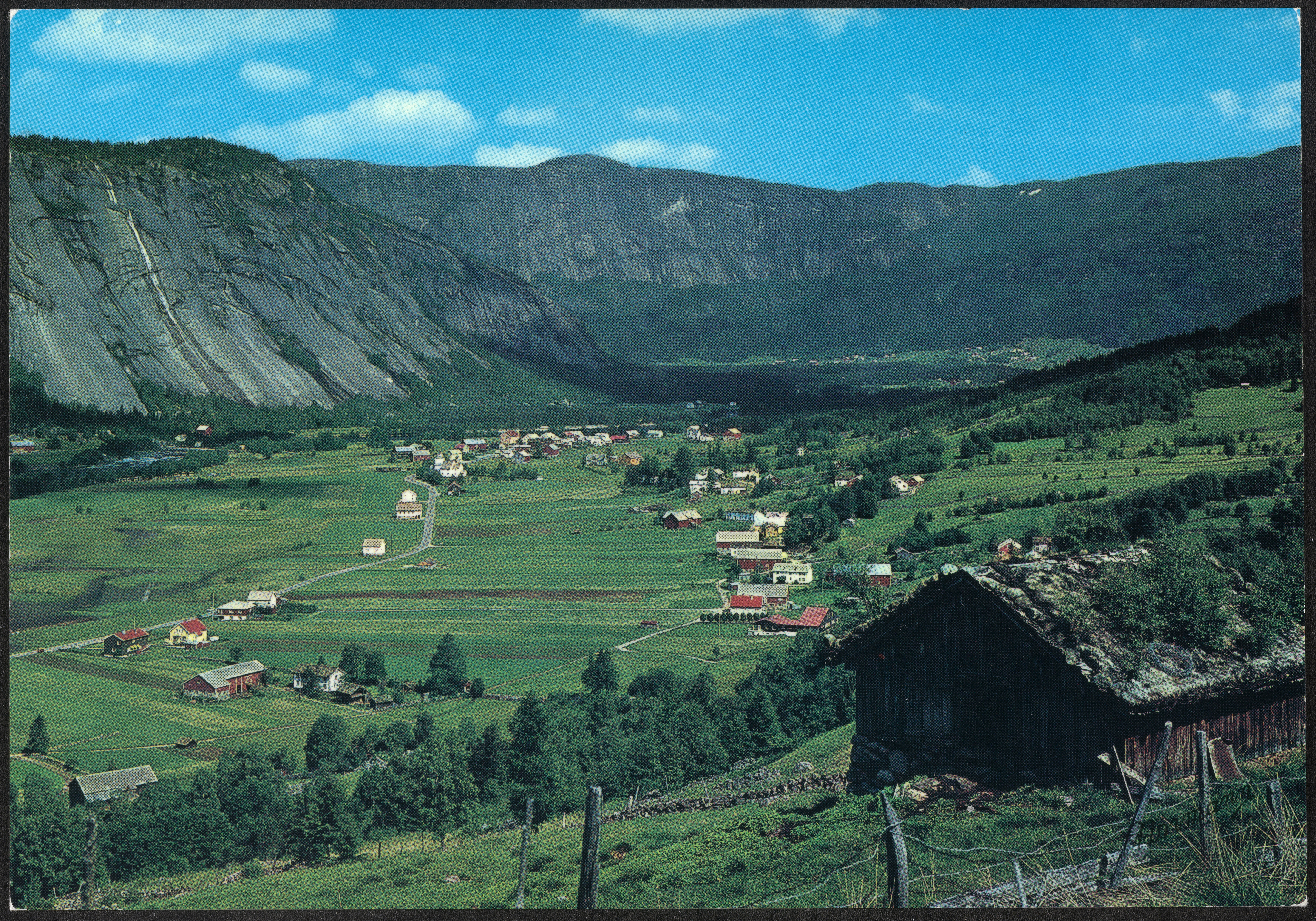 Beskrivelse / Description: J-30-17. Norway: Valle, Setesdal valley Dato / Date: utgitt ca. 1970 Sted / Place: Norge, Aust-Agder, Valle Fotograf / Photographer: ukjent / unknown Utgiver / Publisher: Normanns kunstforlag AS Digital kopi av original / Digital copy of original: postkort, farge, trykt Eier / Owner Institution: Nasjonalbiblioteket / National Library of Norway Lenke / Link: Bildesignatur / Image Number: blds_07948